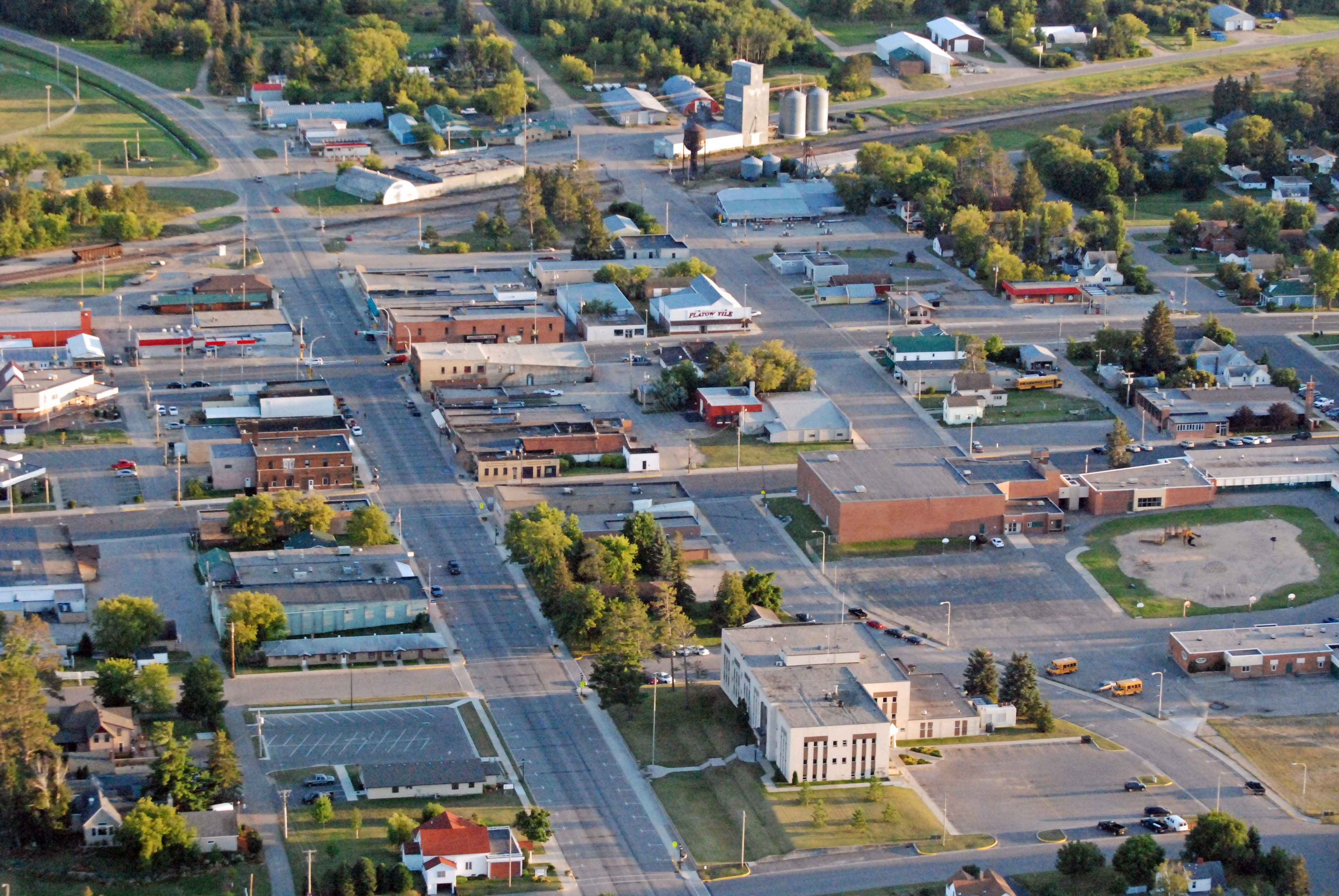 Aerial Photo of downtown Bagley taken on Sept. 3, 2008 by